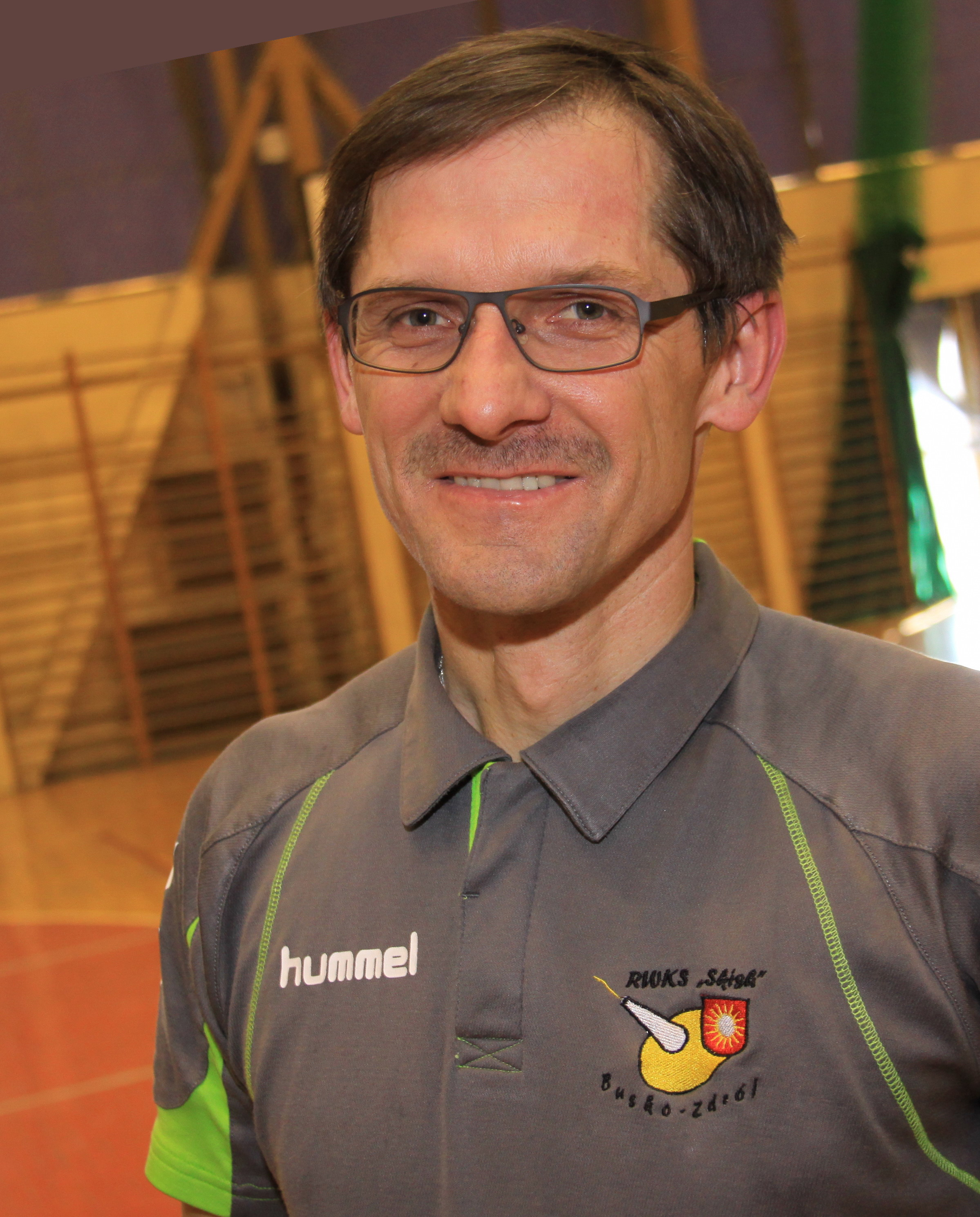 Jacek Kuza - Polish lawyer, a competitor in the discipline casting (fishing casting), world champion, champion of World Games 2001, a member of the Polish national senior team.